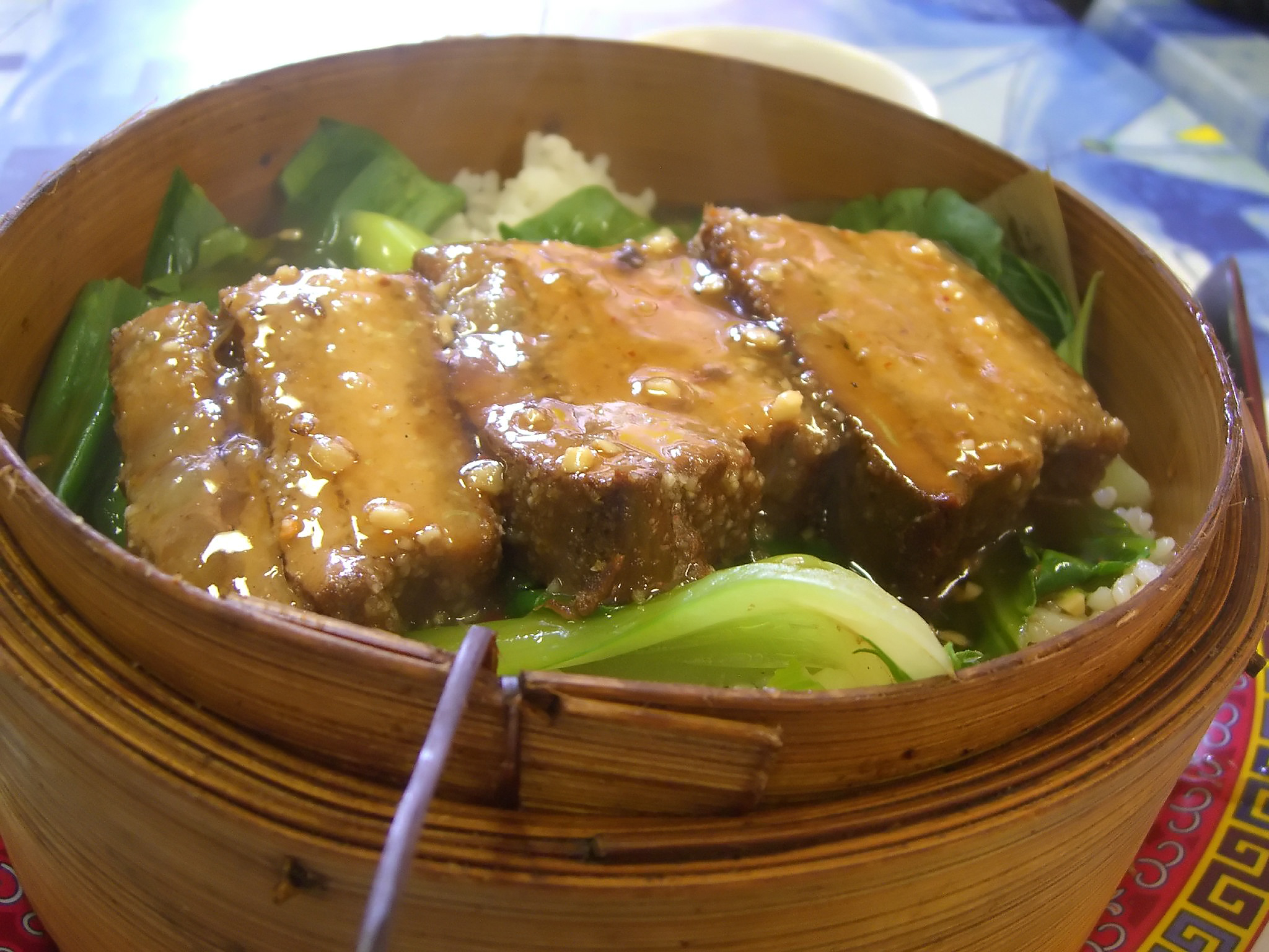 Bamboo Steamer with Steamed Pork on Rice. Shanghai Dumpling & Noodle Restaurant, Melbourne, Australia.